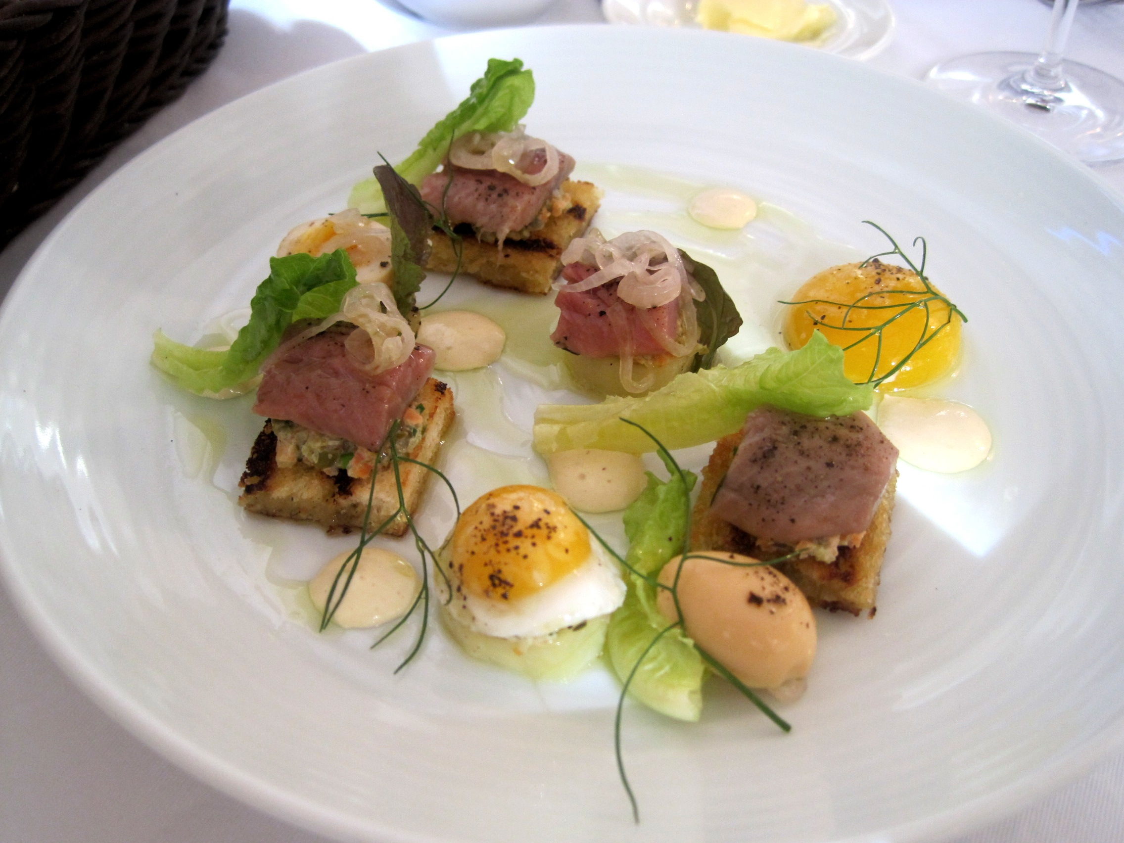 Catit 2011 1